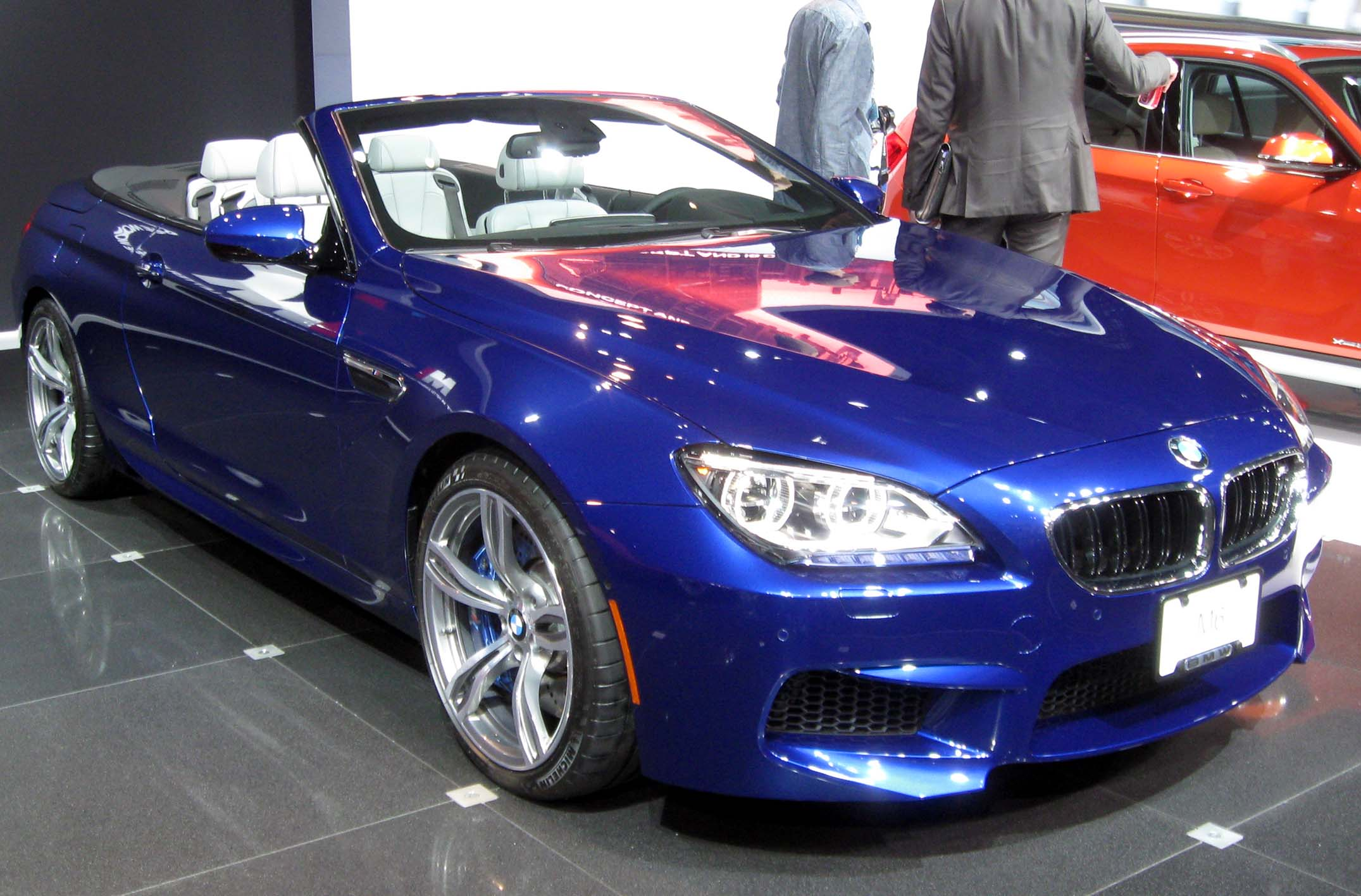 2012 BMW M6 photographed at the 2012 New York International Auto Show.